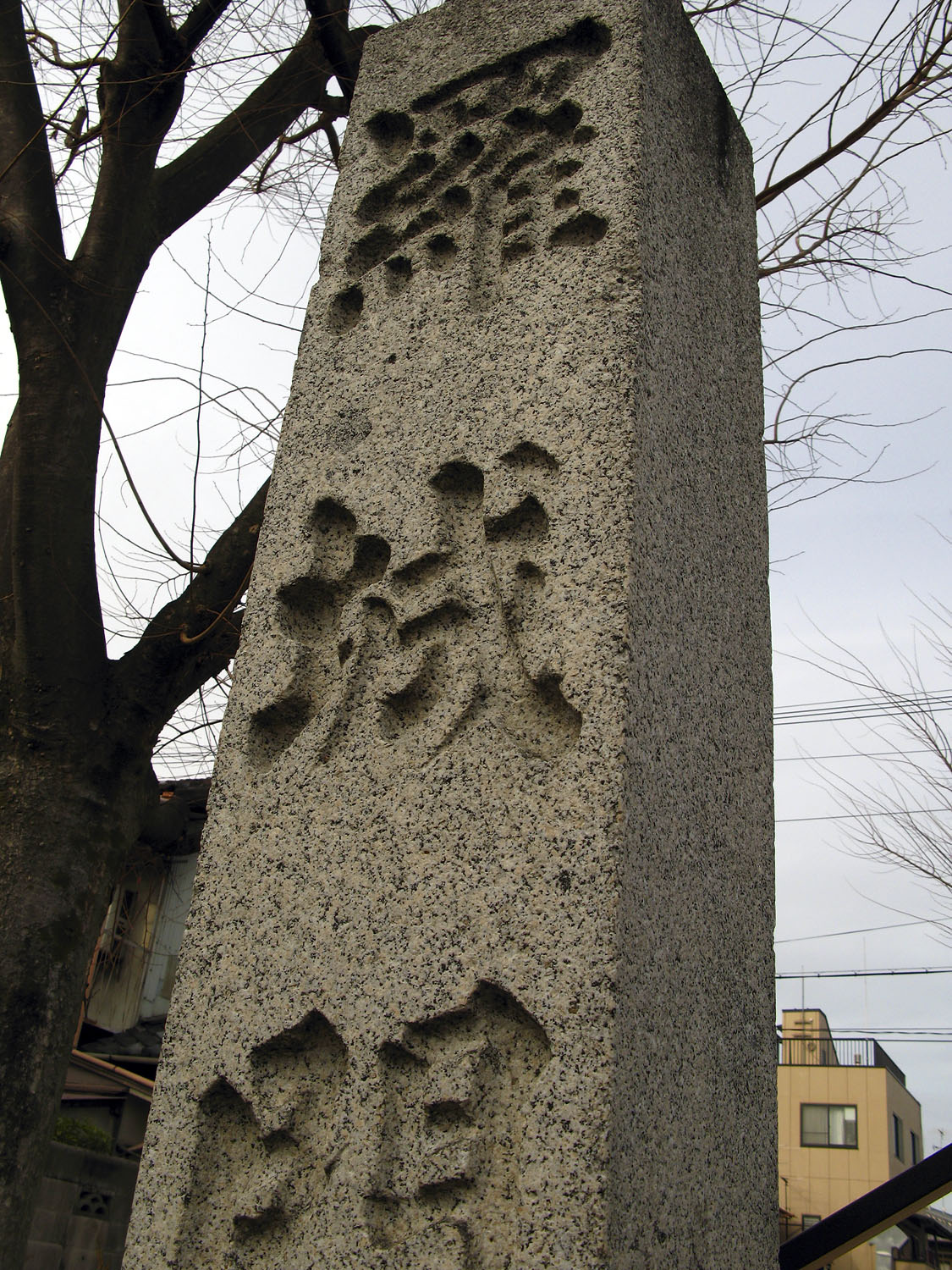 This marker shows the site of the former Rajōmon (Rashōmon), the great south gate to the city of Kyoto, Japan. I took the photo.